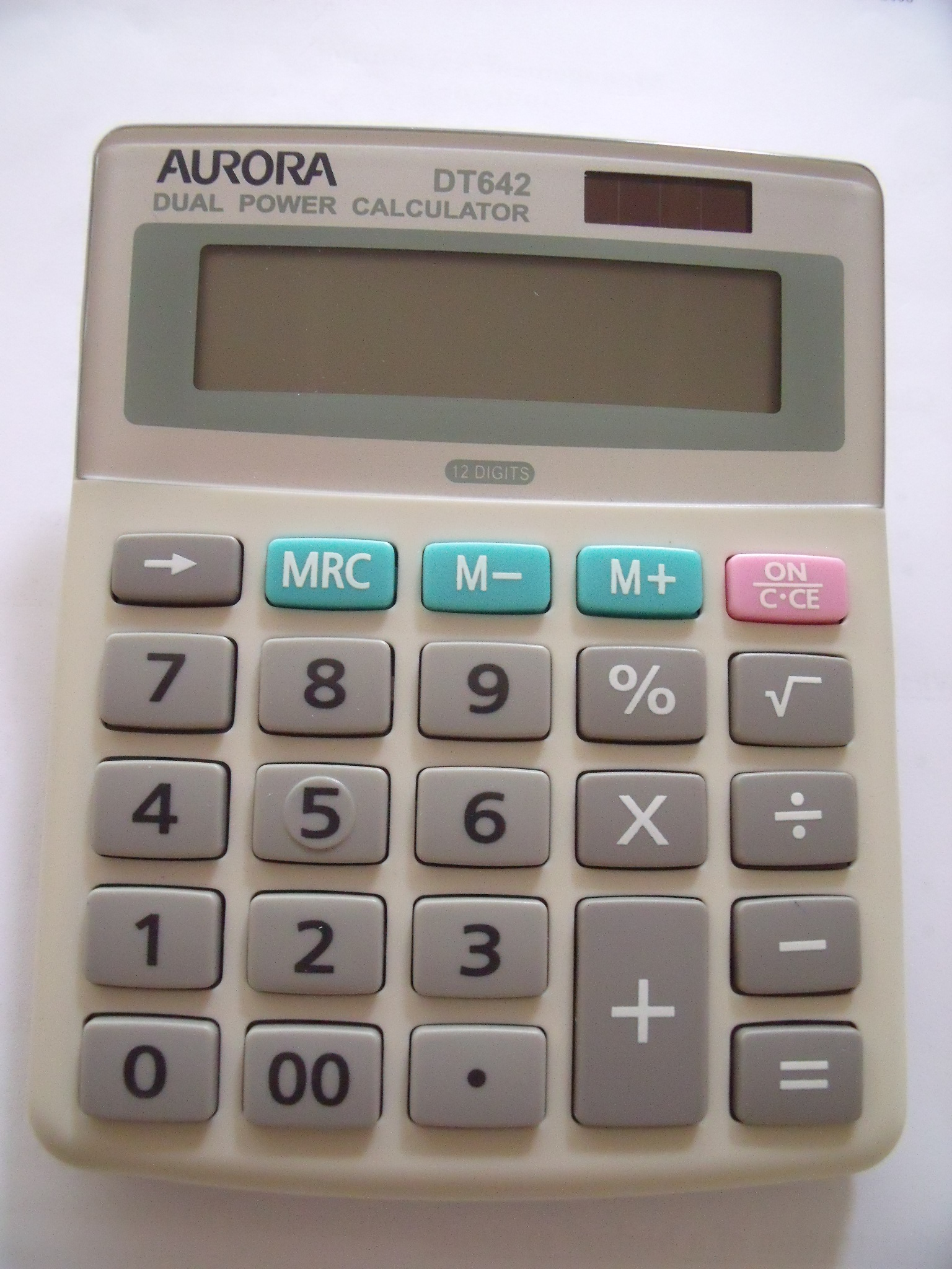 Aurora dual power calculator DT642, it's good to use.